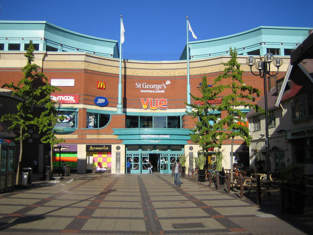 Harrow: St George's Shopping & Leisure This is the entrance to St George's at the western end of the pedestrianized St Ann's Road.